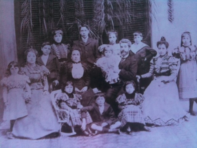 Tezanos Pinto Torres Agüero family